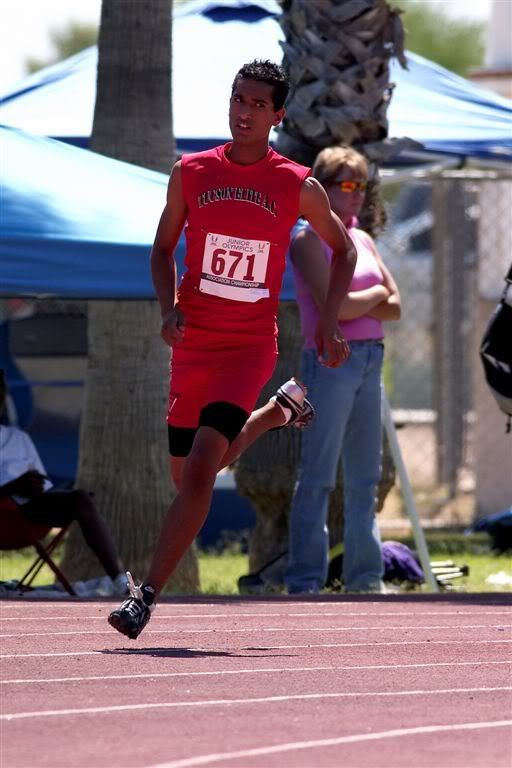 Khairandesh running at Junior Olympics in Glendale, AZ.